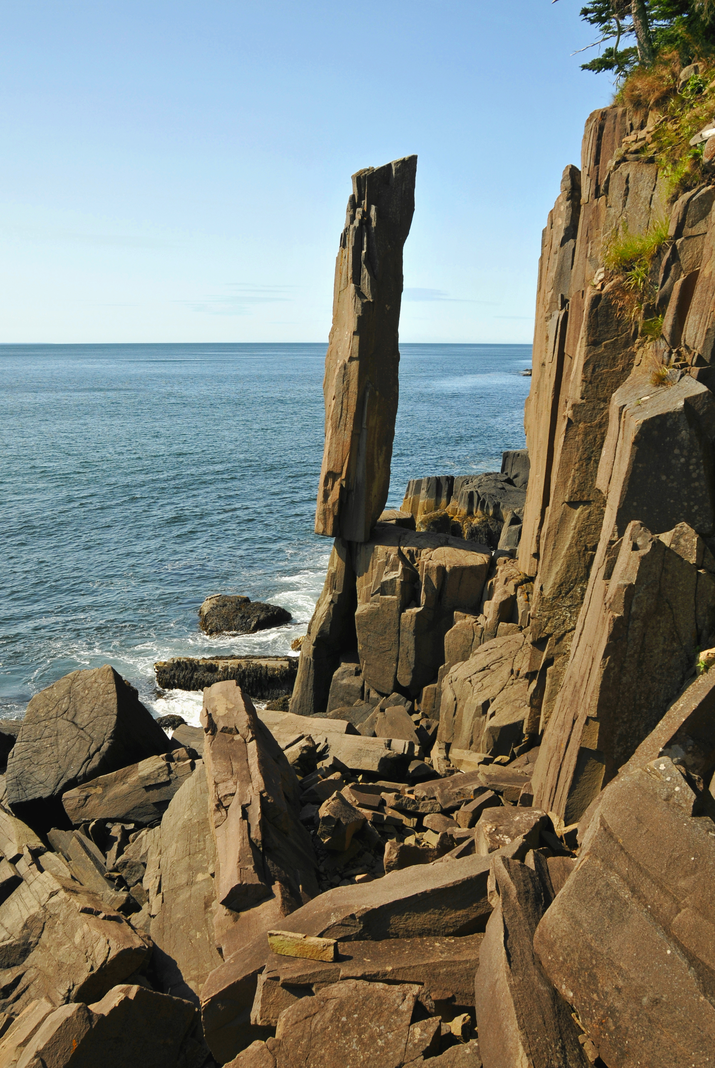 The phenomenal Balancing Rock is approximately four feet wide and twenty feet tall. A wonderful quirk of nature, this immense basalt column stands alone after many like it have dropped into the sea and the earth. Roughly 200 million years ago Nova Scotia was located in the interior of the super-continent, Pangaea. Movements that began during the Triassic Period were so dramatic they eventually resulted in the break up of Pangaea into North and South America, Africa and the Atlantic Ocean. Today, when the earth's crust moves and shifts, we often witness changes of a similar magnitude caused by the devastating and destructive results of immense earthquakes and tsunamis. Deep beneath the Earth's crust (the lithosphere: a solid array of plates) is a layer of heated rock known as the asthenosphere. It is heated by the radioactive decay of elements such as uranium, thorium and potassium. This heat causes the ocean floors to continually move, shifting and separating from the center in different directions. The crustal portions of oceanic plates primarily consist of basalt. As the continents shifted, lava forced to the surface cooled and formed into columnar basalt sea stacks. These columns are usually six-sided, but can feature as few as three or as many as twelve (or more) sides.